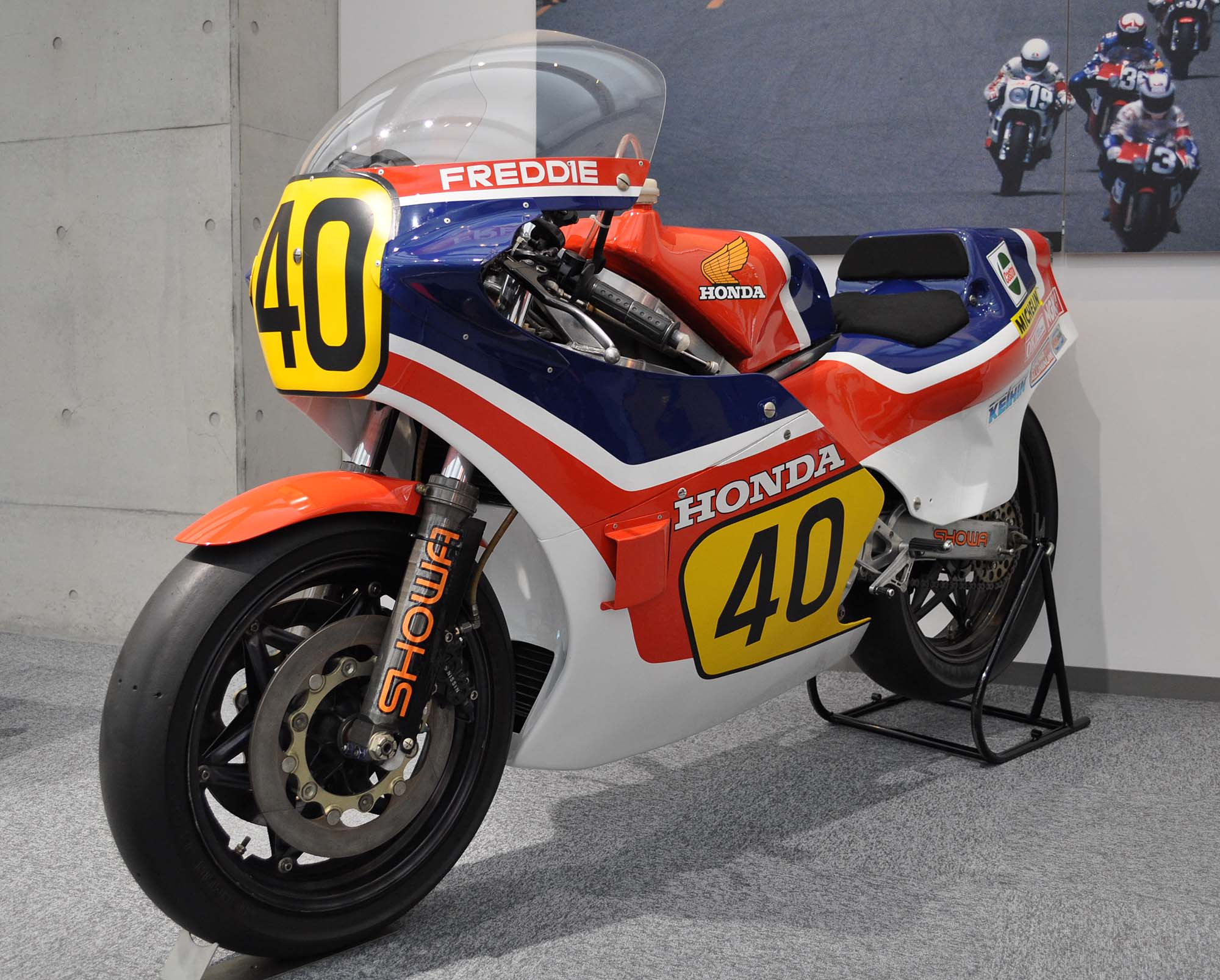 Honda NS500 (Freddie Spencer, Belgian GP in 1982)